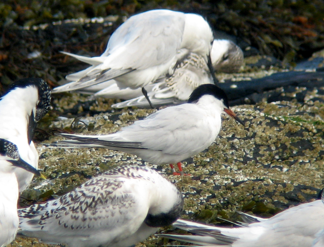 Roseate Tern Sterna dougallii, adult in late summer, Inner Farne, Farne Islands, Northumberland, UK. Other birds at edge of photo are Sandwich Terns Thalasseus sandvicensis.